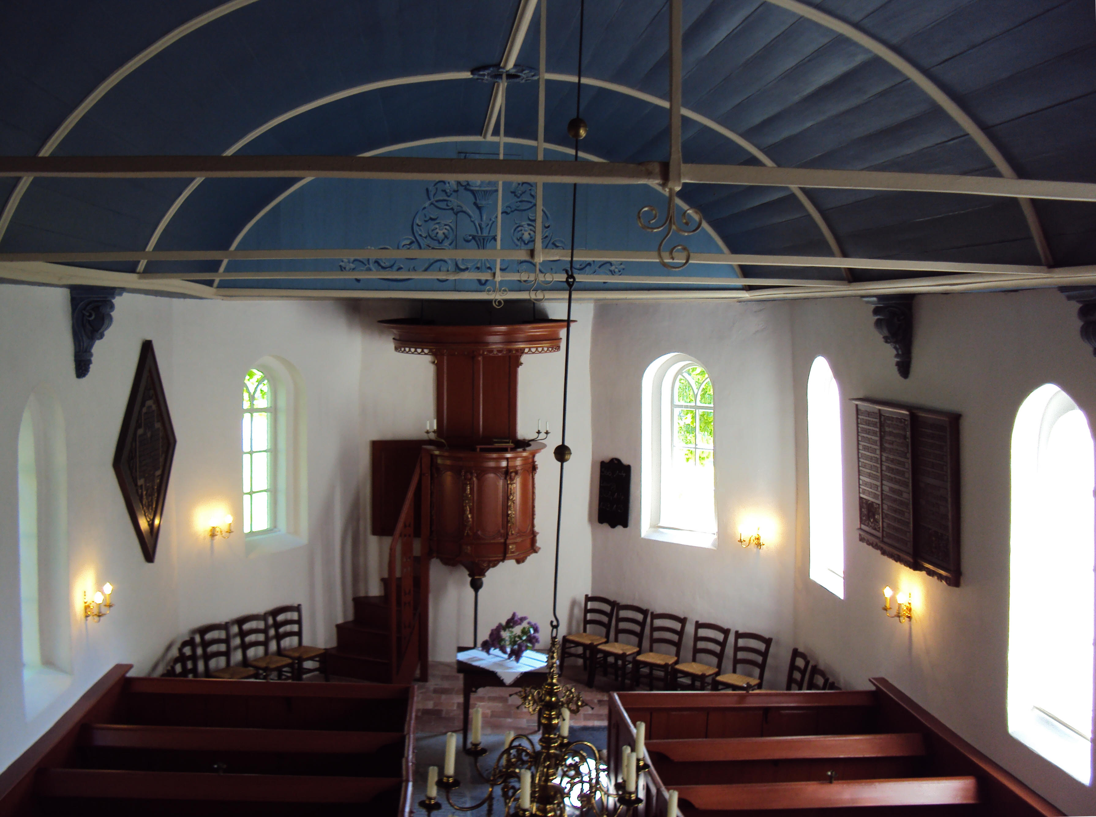 Church in Böhmerwold, East Frisia